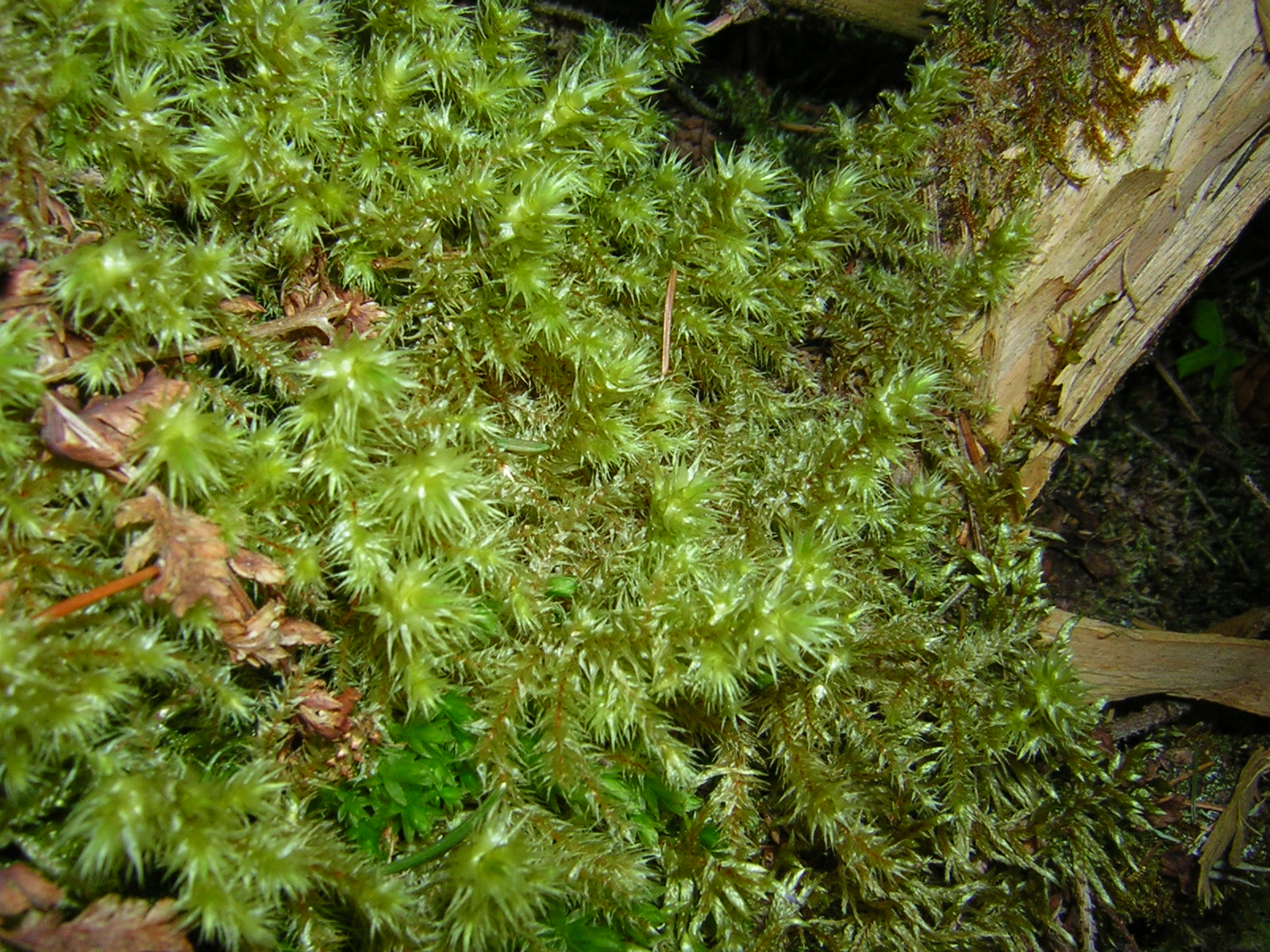 Rhytidiadelphus triquetrus (Hedw.) Warnst.